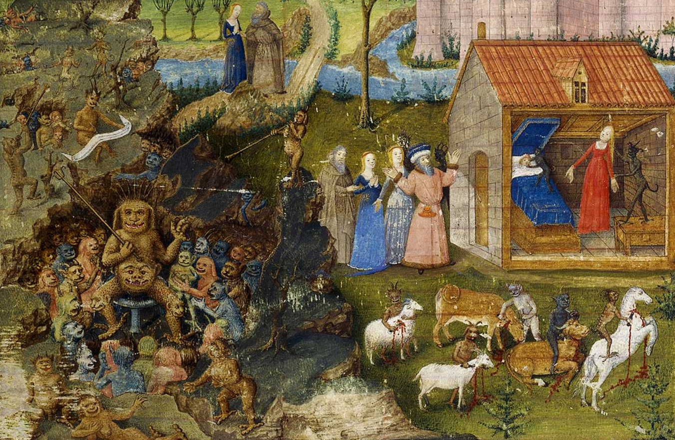 13th-century's romance manuscript copied in Bourges to 1480-1485 BnF, Manuscrits, Français 91 fol. 1 Here begins the story of Merlin with how the council of the demons of hell decided, with their damned master Lucifer, to engender through the body of a virgin girl.